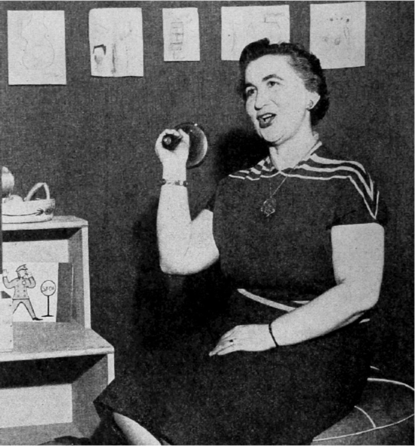 Photo of Frances Horwich (Miss Frances) on the air of the children's program Ding Dong School in 1953. A search for renewal was done at for "Radio-TV Mirror" there were no listings for the title. There's no evidence of continuing copyright on the magazine.